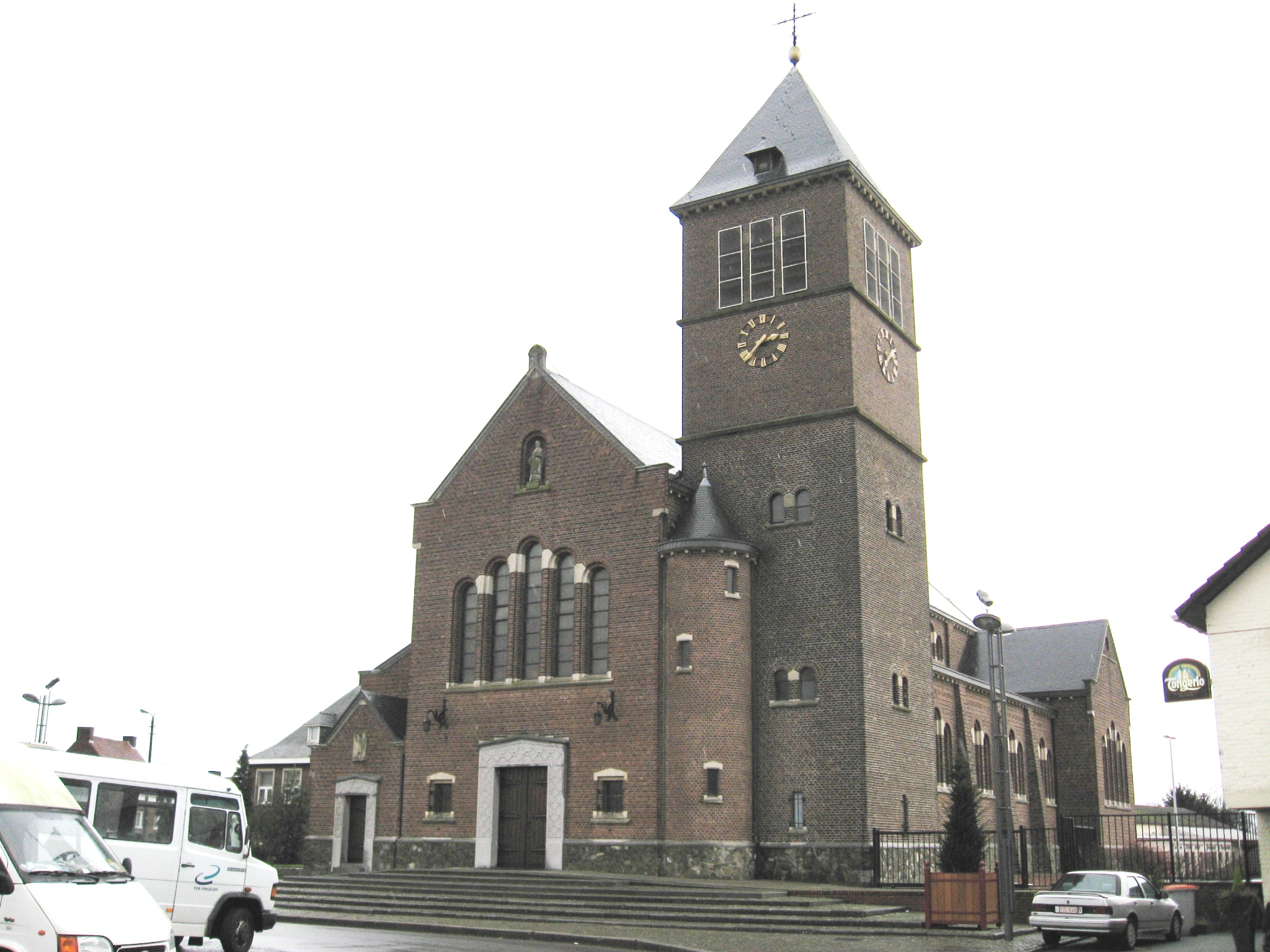 Church of Saint Willibrord in Eisden, Maasmechelen, Limburg, Belgium